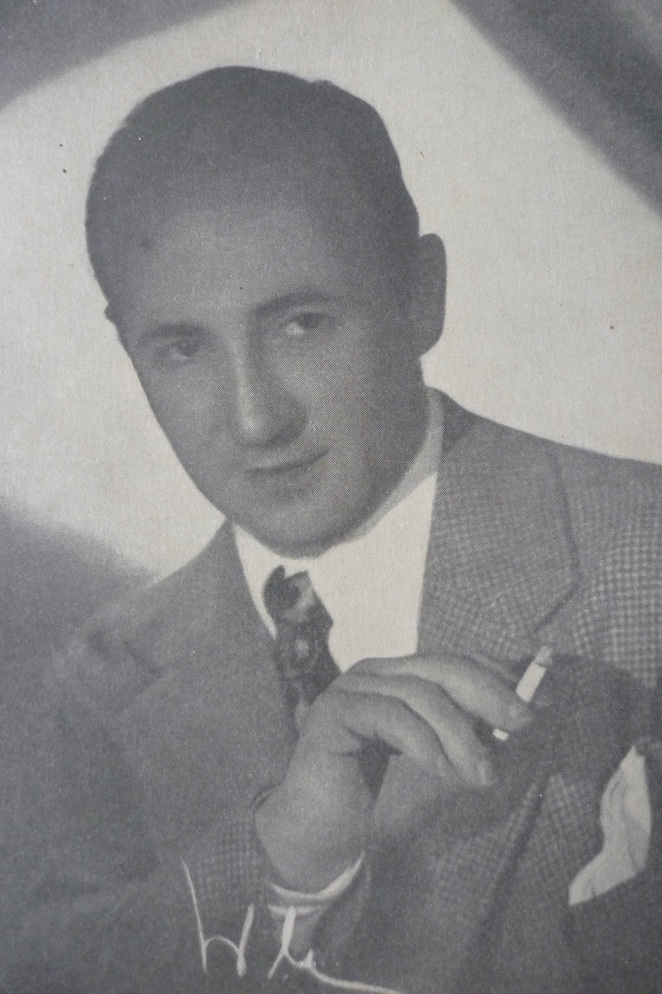 Vicente Formi